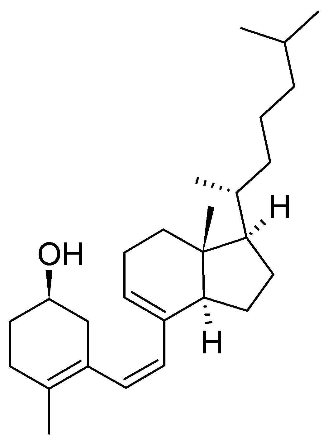 I made it myself using ACD/ChemSketch